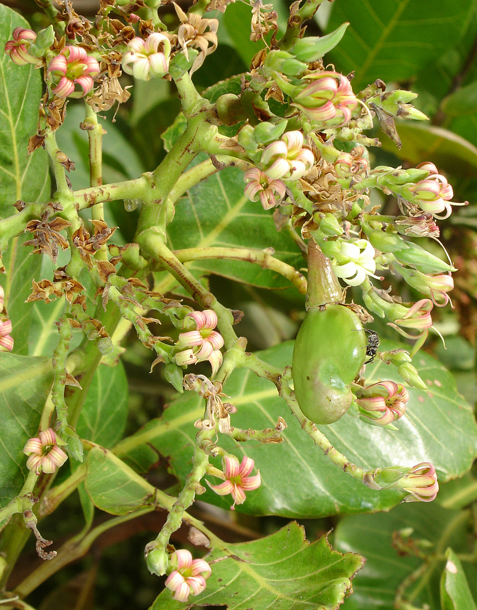 Detail of cashew flowers and a growing fruit (Anacardium occidentale) in the town of Prainha near Fortaleza, Ceará, Brazil.